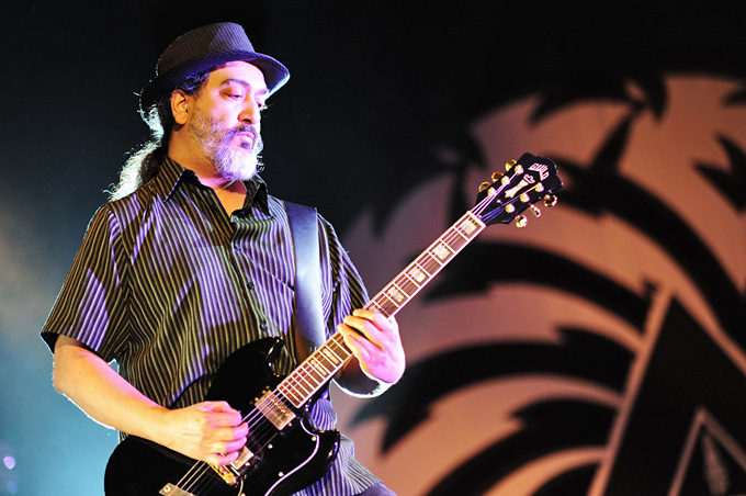 Kim Thayil of Soundgarden performing live at Big Day Out Festival 2012.